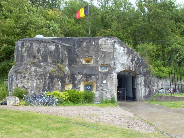 Main entrance to the Eben-Emael fort (Belgium). Author: Zbigniew Strucki